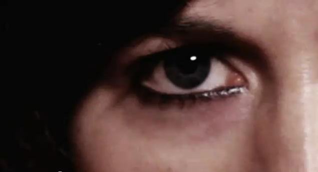 Image from the (December) 2010 film "anonymous (street meat)"